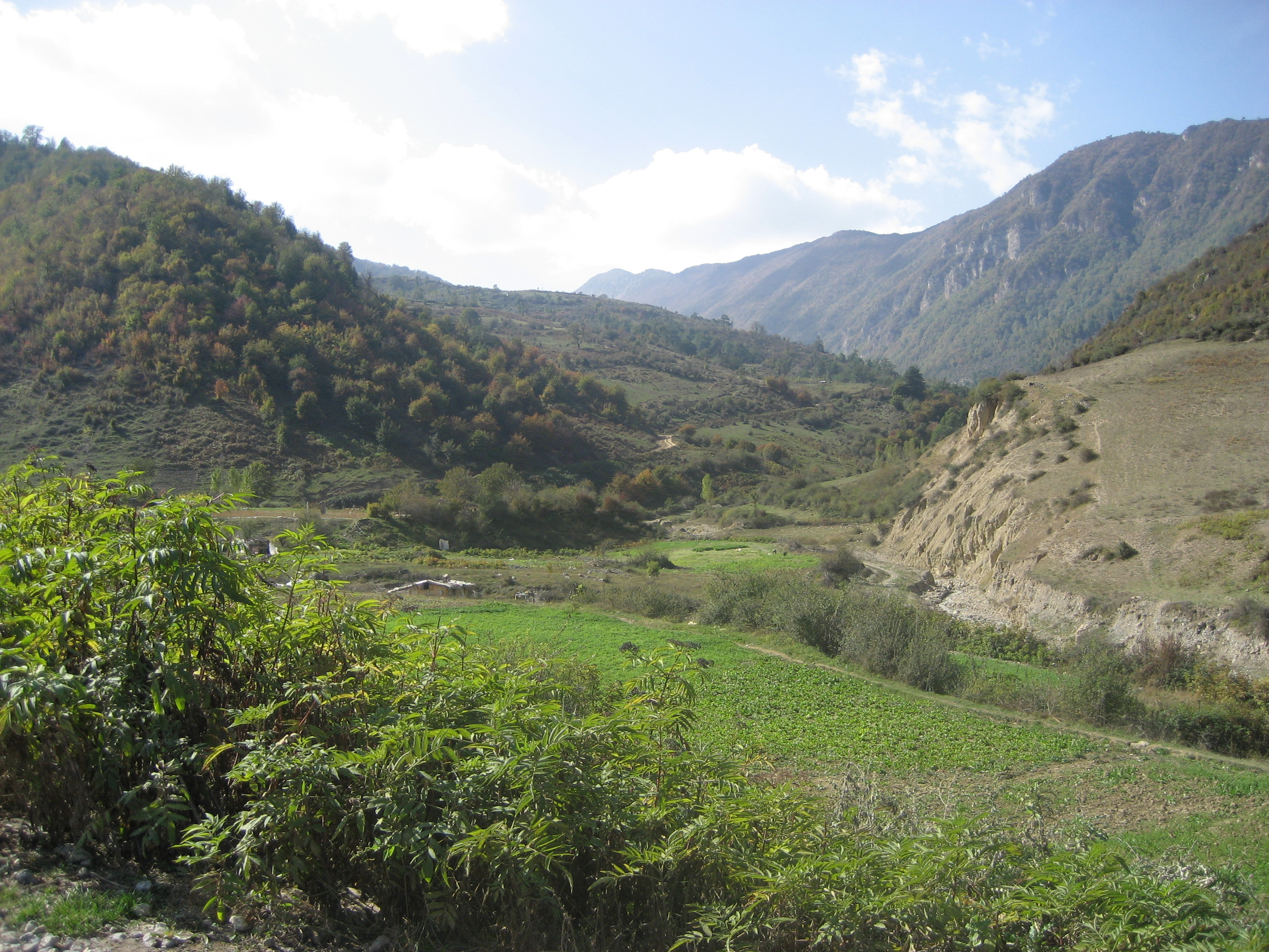 Nature of Ziyarat Village, Gorgan County, Golestan Province of Iran.